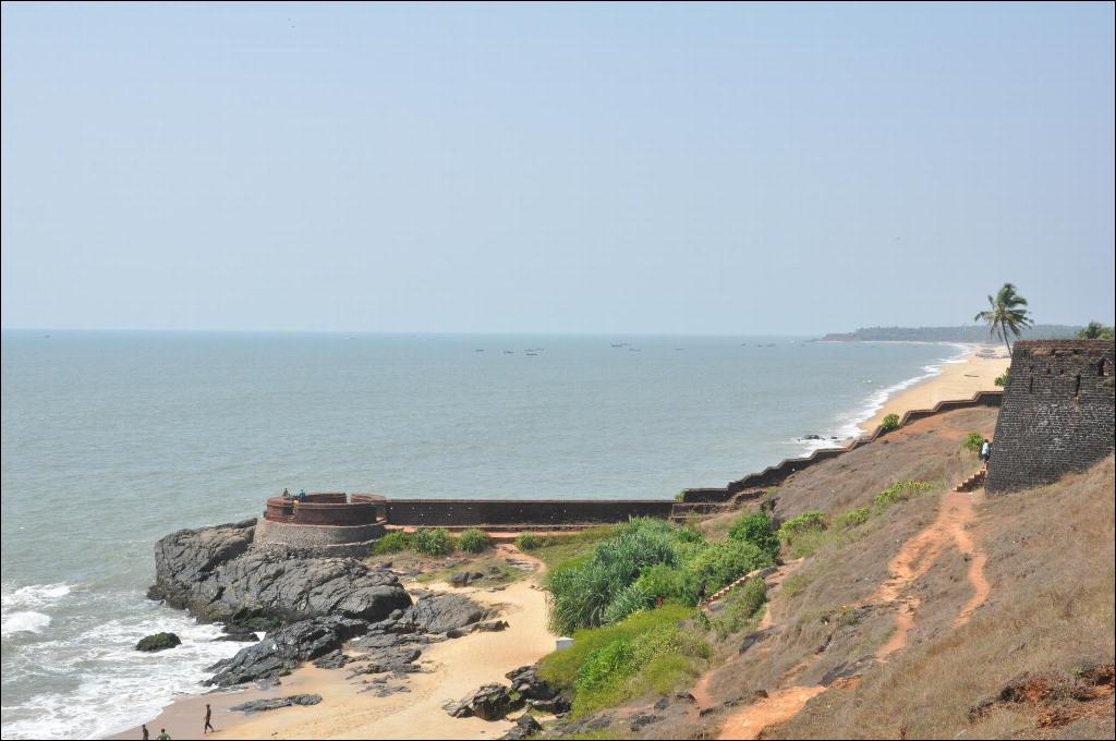 One of the strategic forts in the Malabar history. From Nayakas to Tipu Sultan and then to the British empire, it has served as a military station. This view is of the platform on the west just beside the beach (and the beach itself). Kasargod District, Kerala.